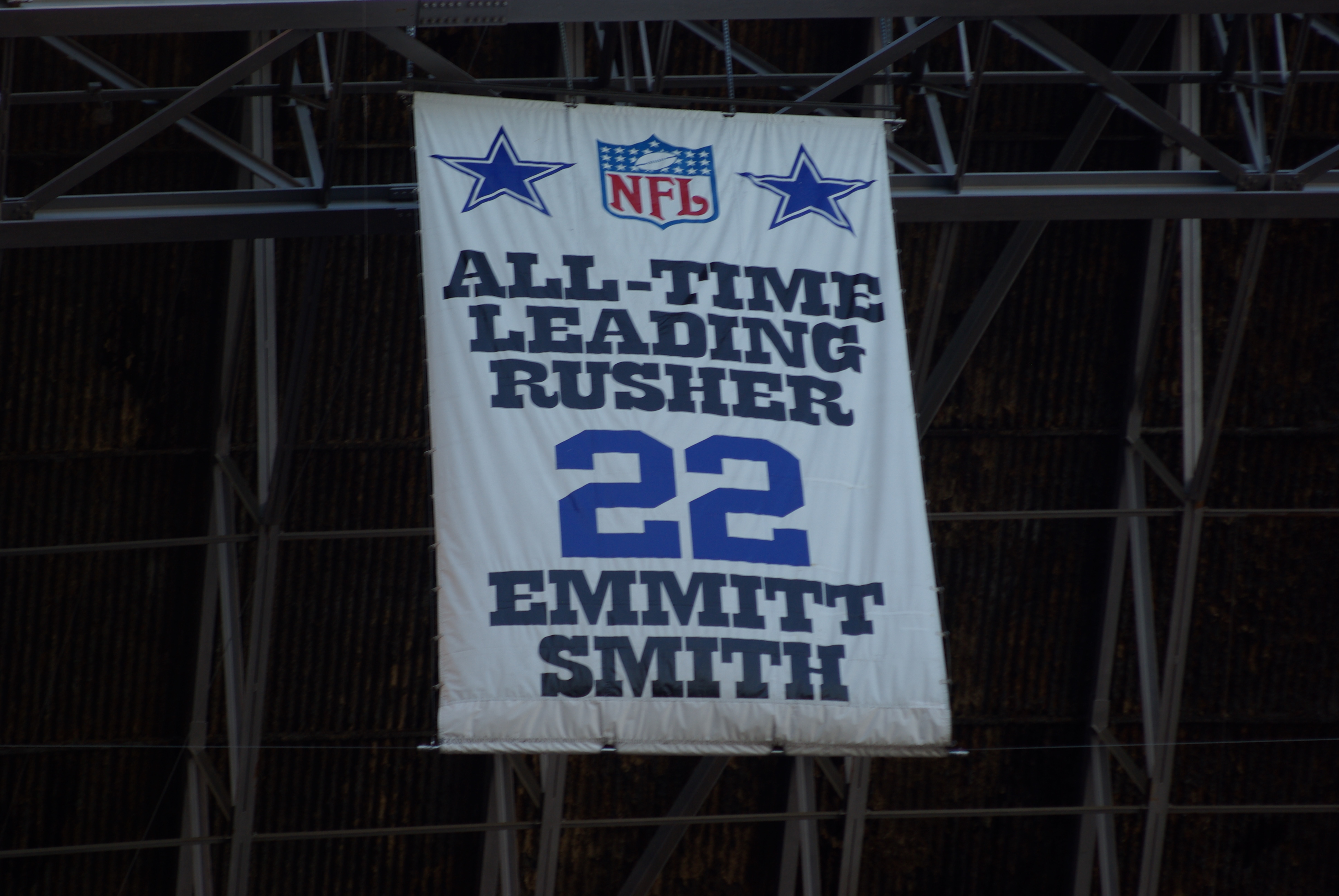 Emmitt Smith's Rushing Banner from Texas Stadium.